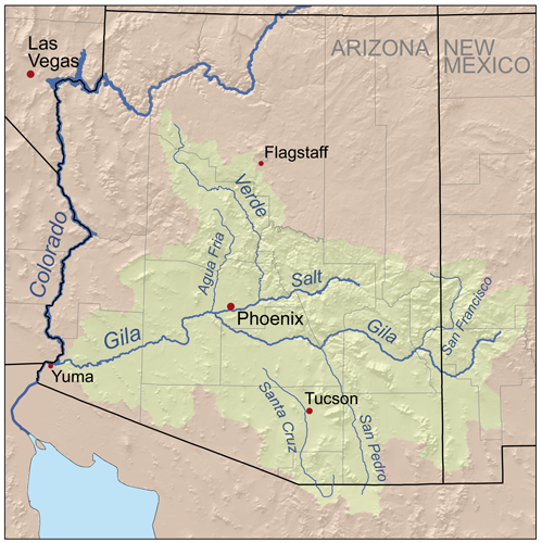 Map of the Gila River watershed-drainage basin — located in New Mexico and Arizona. Showing Gila Basin tributaries of the Colorado River.